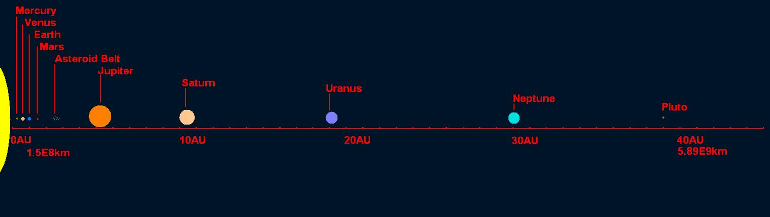 This shows the relative distances between planets in our solar system. The sun and planets are not on the same scale, but are approximately scaled by size ratio. The diameters of the planets and the distance between planets are not on the same scale either due to size constraints (if the diameters of the planets were kept as they are in the image, the distance between the sun and Pluto would take up a length more than hundred times the length of the computer screen you are reading this on).